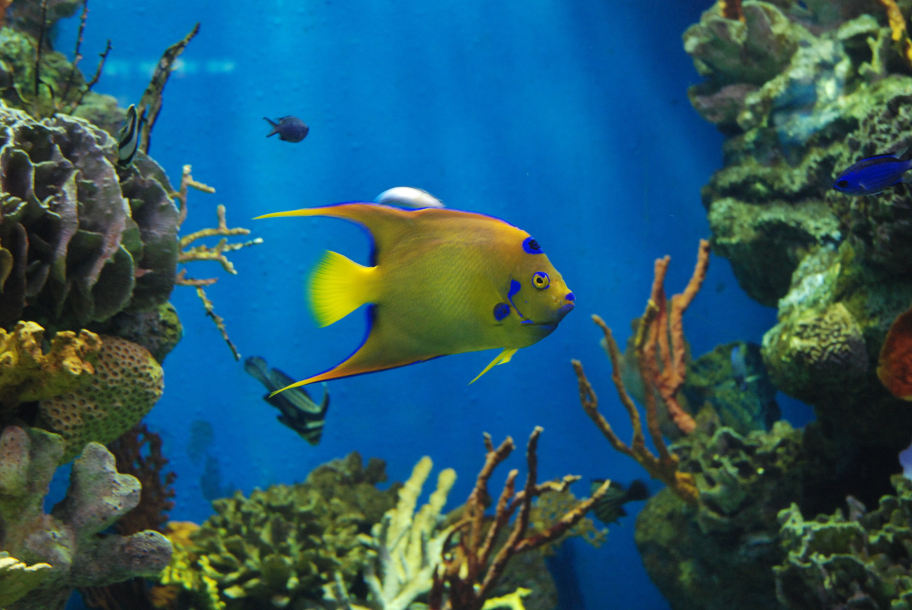 Queen angelfish (Holacanthus ciliaris, also called Blue angelfish) is a species of marine angelfish (Pomacanthidae). The specimen on the picture is photographed in an aquarium in Barcelona, Spain